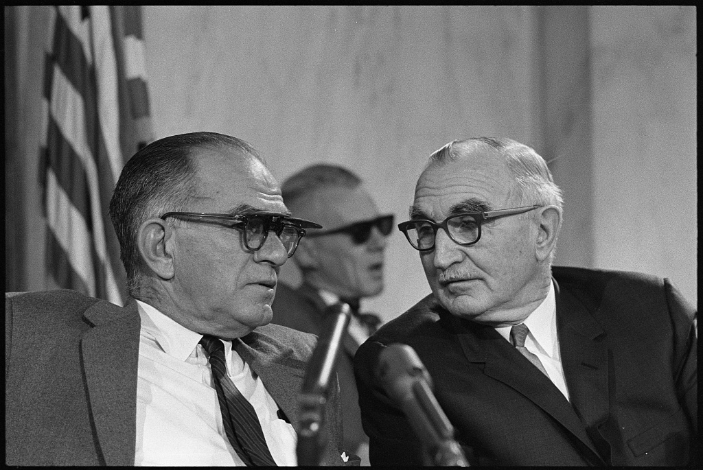 Senator Wayne Morse (right) seated with Senator William Fulbright in front of microphones during a hearing of the Senate Foreign Relations Committee where Secretary of Defense Robert McNamara testified about the progress of the Vietnam War